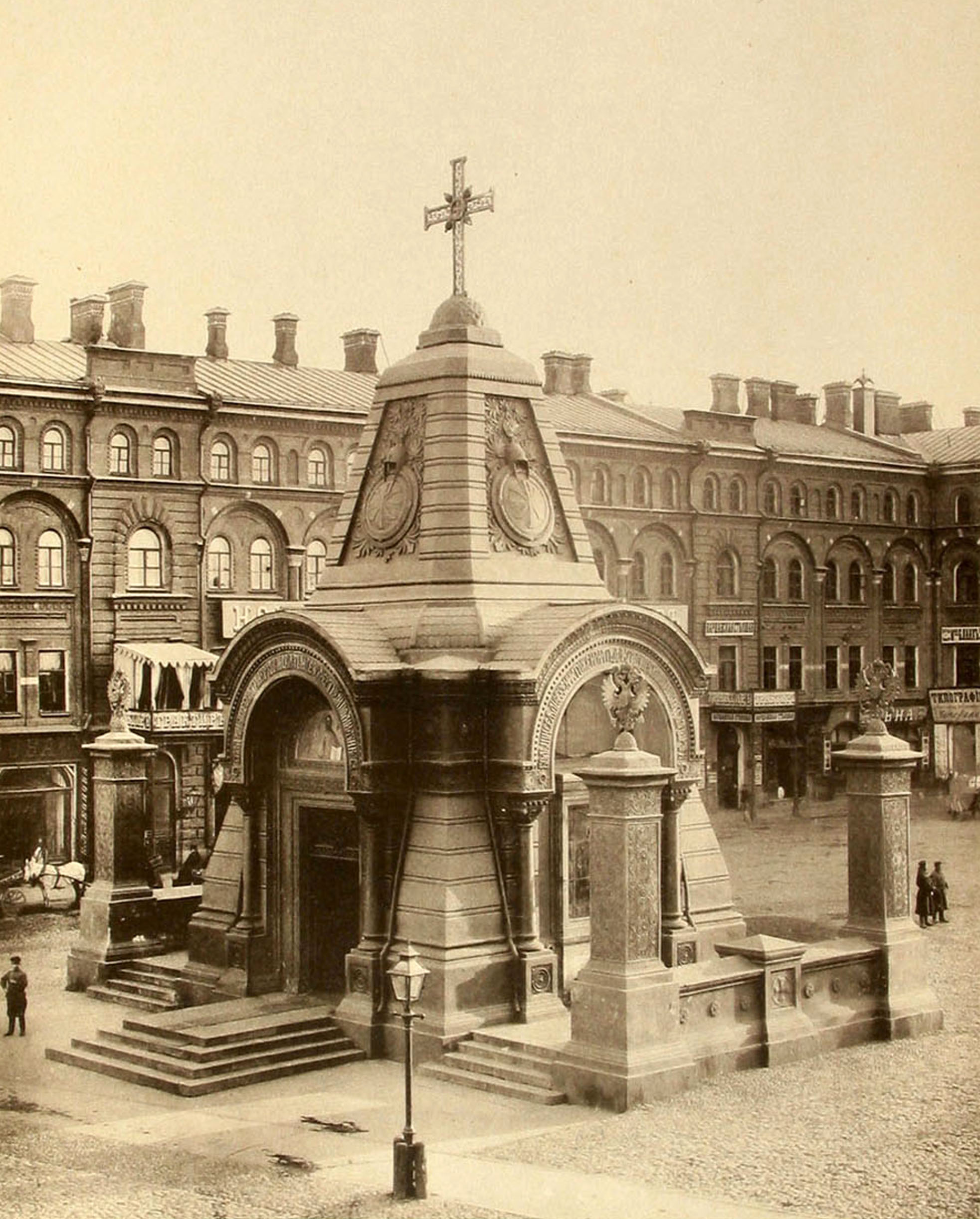 Alexander Nevsky chapel in Moscow